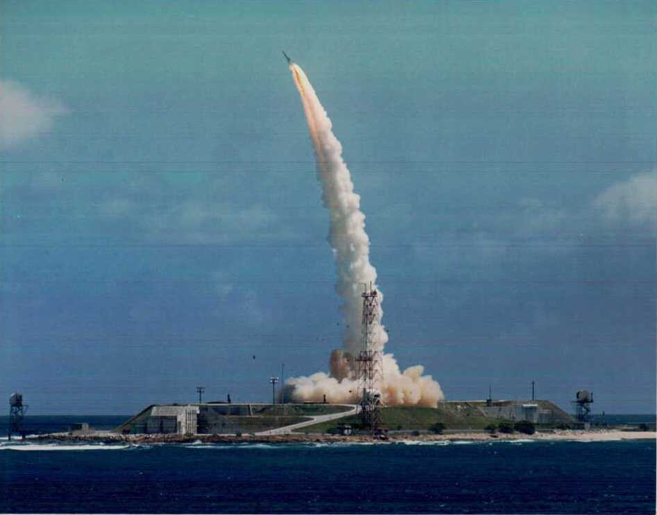 A Sprint missile maneuvers after launching from its underground silo on Meck Island, part of the Kwajalein Atoll. The darker area within the exhaust is the result of the injection of freon gas, which created thrust vectoring for guidance. The debris in the air close to the ground are the remains of the silo cap, which is explosively ejected as part of the launch process. The view is looking to the south, the missile control building and radars are behind the built up area and not visible in this image.